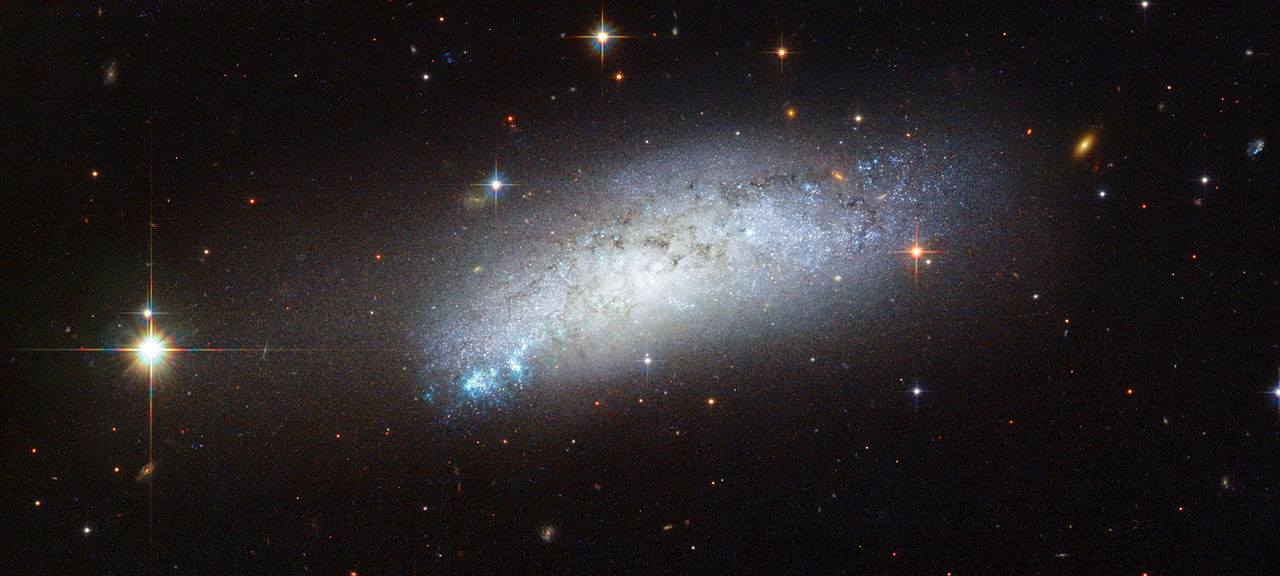 This galaxy goes by the name of ESO 162-17 and is located about 40 million light-years away in the constellation of Carina. At first glance this image seems like a fairly standard picture of a galaxy with dark patches of dust and bright patches of young, blue stars. However, a closer look reveals several peculiar features. Firstly, ESO 162-17 is what is known as a peculiar galaxy — a galaxy that has gone through interactions with its cosmic neighbours, resulting in an unusual amount of dust and gas, an irregular shape, or a strange composition. Secondly, on 23 February 2010 astronomers observed the supernova known as SN 2010ae nestled within this galaxy. The supernova belongs to a recently discovered class of supernovae called Type Iax supernovae. This class of objects is related to the better known Type-Ia supernovae. Type Ia supernovae result when a white dwarf accumulates enough mass either from a companion or, rarely, through collision with another white dwarf, to initiate a catastrophic collapse followed by a spectacular explosion as a supernova. Type Iax supernovae also involve a white dwarf as the central star, but in this case it may survive the event. Type Iax supernovae are much fainter and rarer than Type Ia supernovae, and their exact mechanism is still a matter of open debate. The rather beautiful four-pointed shape of foreground stars distributed around ESO 162-17 also draws the eye. This is an optical effect introduced as the incoming light is diffracted by the four struts that support the Hubble Space Telescope’s small secondary mirror.